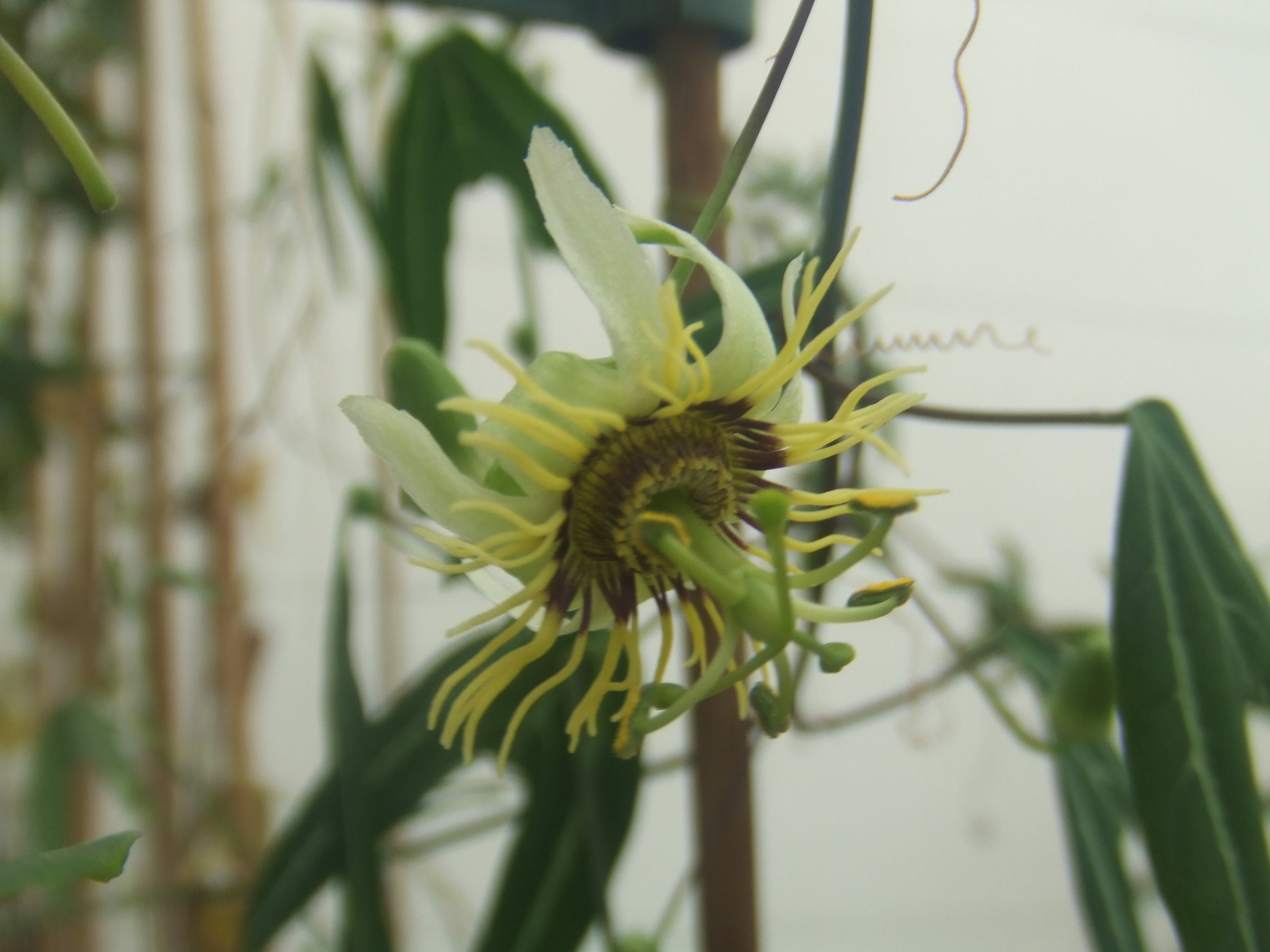 Passiflora xishuangbannaensis, picture taken at the Passiflorahoeve in Harskamp, The Netherlands